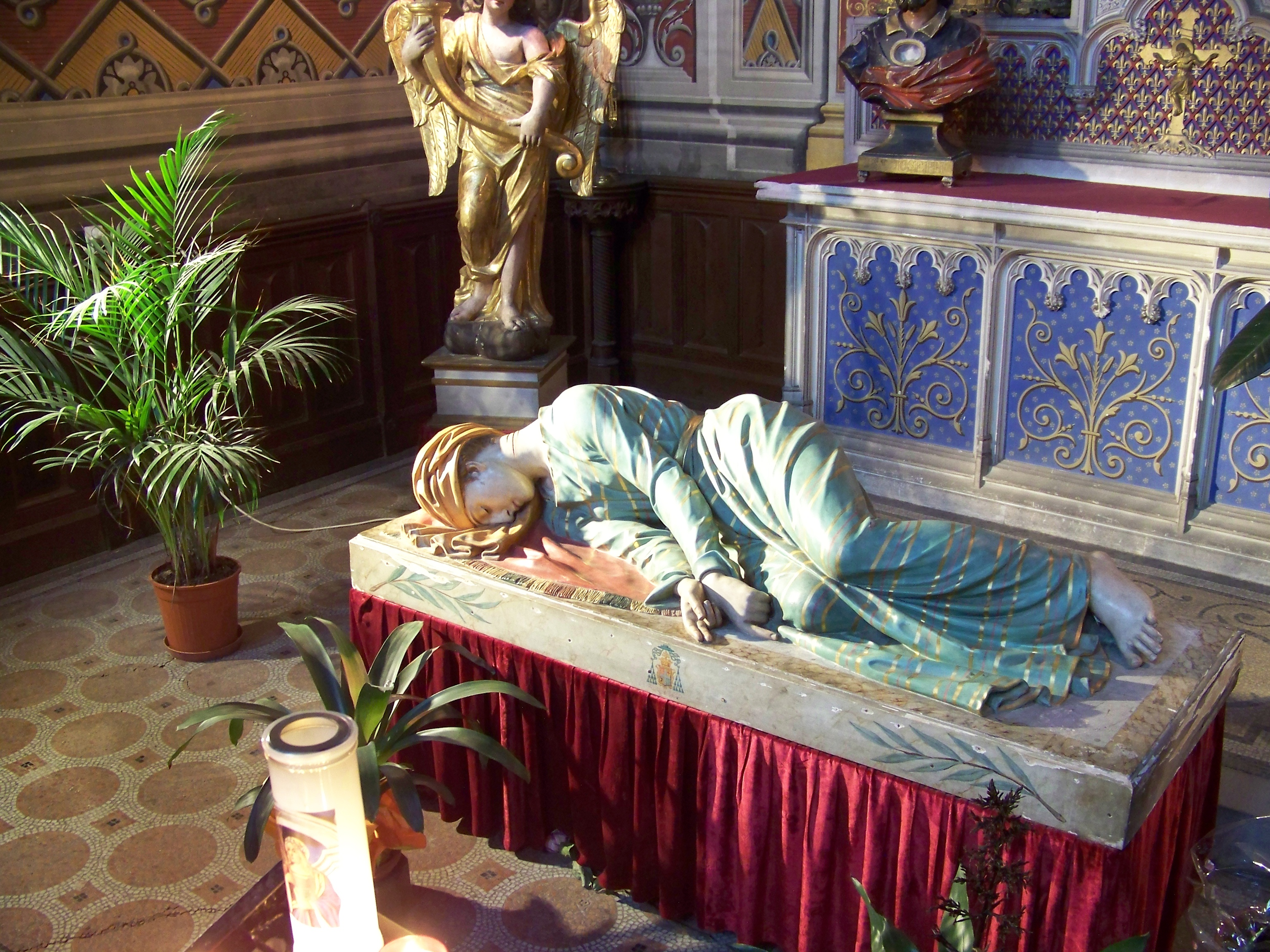 Lying statue of Saint Cecilia in the cathedral Saint-Caecilia in Albi